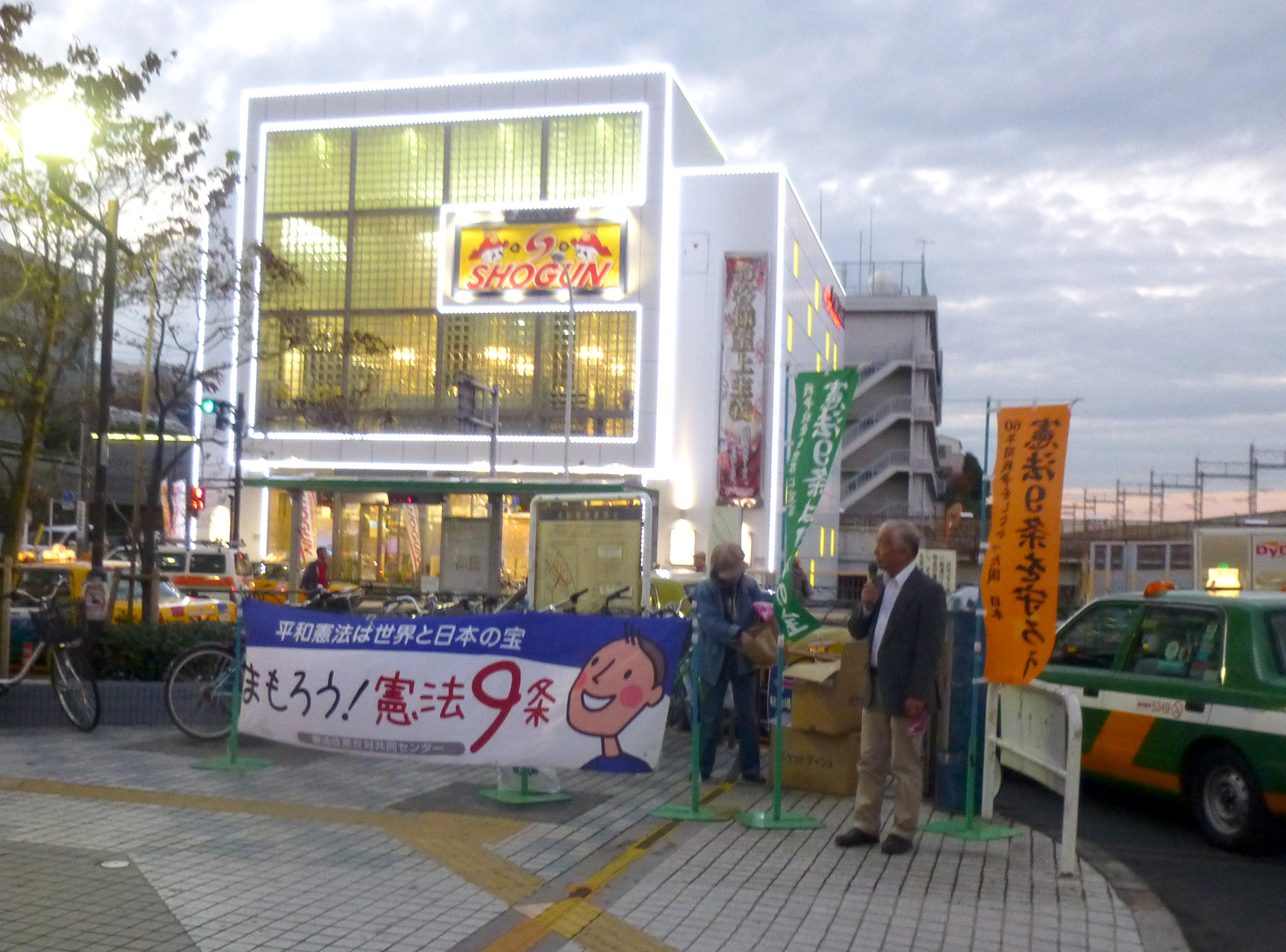 A small demonstration in favor of maintaining Article 9 of the Japanese Constitution, in front of Tabata Station, in Tokyo. (2012)